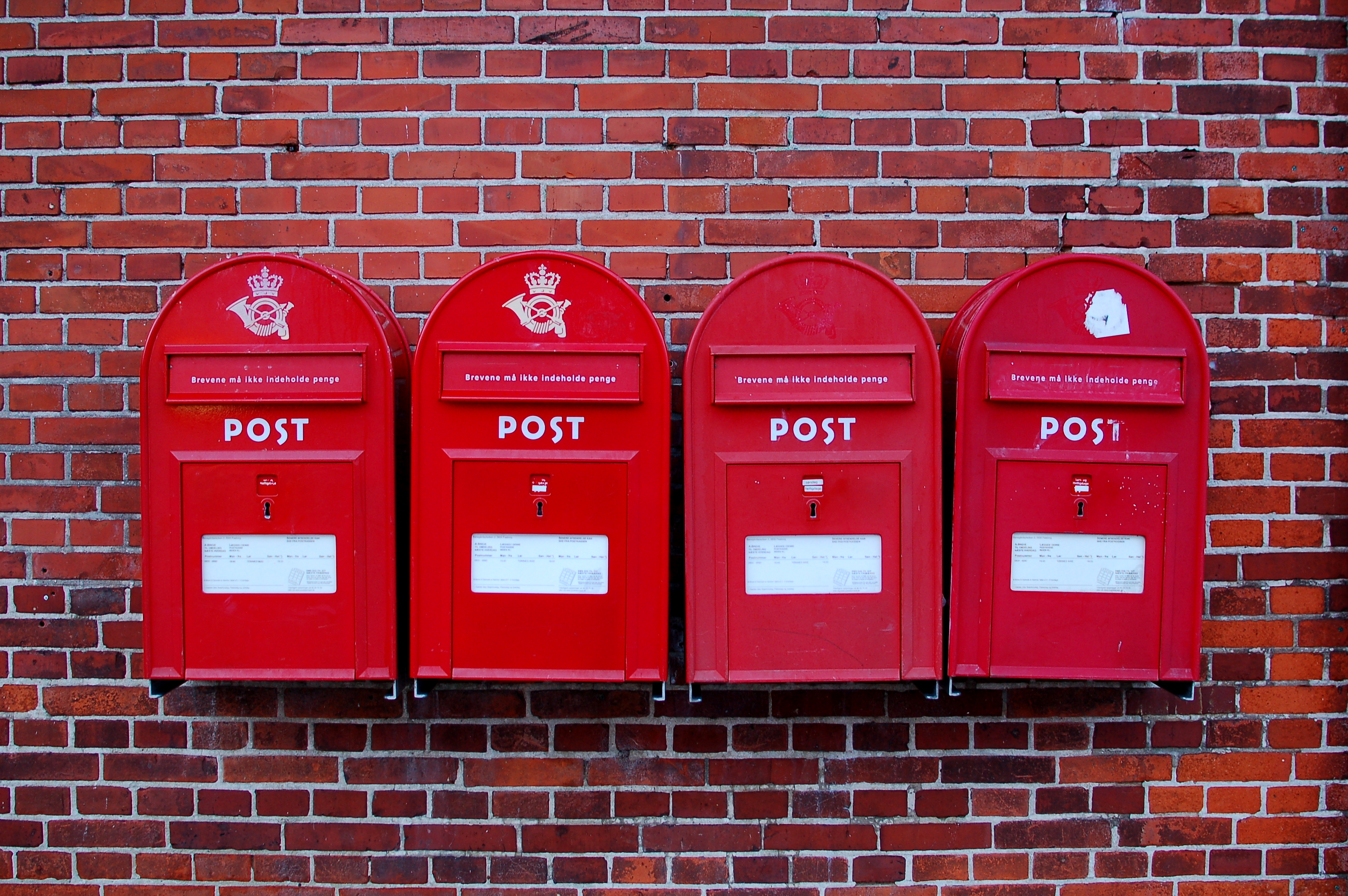 Mailboxes (used by Post Danmark), in Faaborg, Denmark